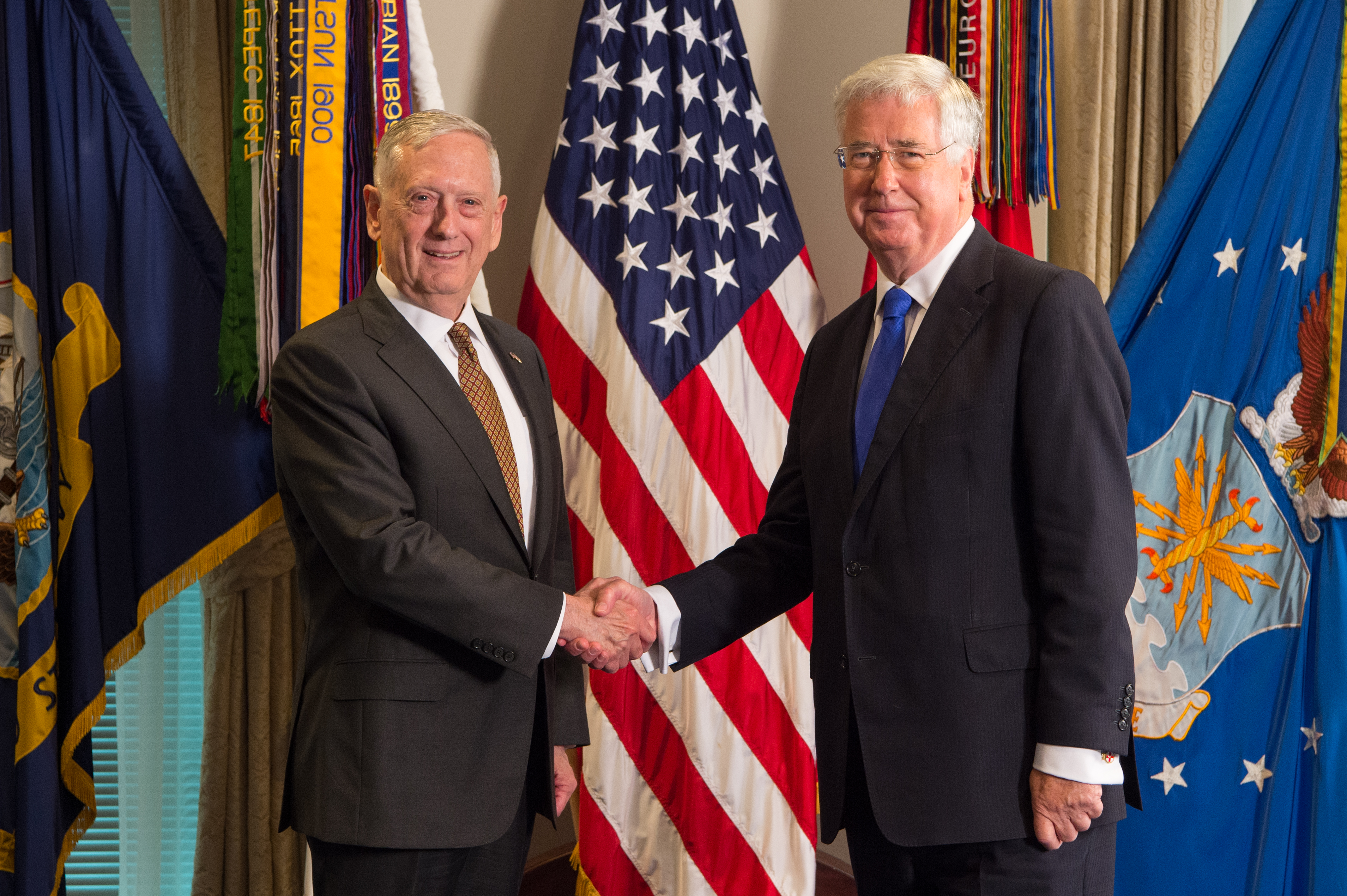 Defense Secretary Jim Mattis stands with United Kingdom’s Secretary of State for Defence Sir Michael Fallon before a meeting at the Pentagon in Washington, D.C., July 7, 2017. (DOD photo by U.S. Army Sgt. Amber I. Smith)